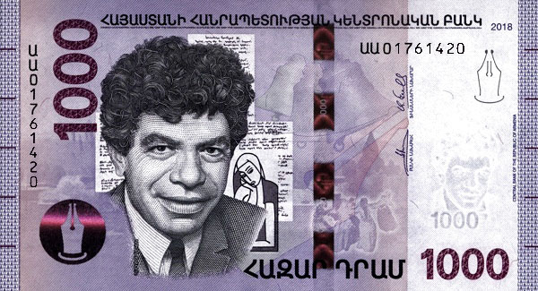 1000 dram 2018 Obverse